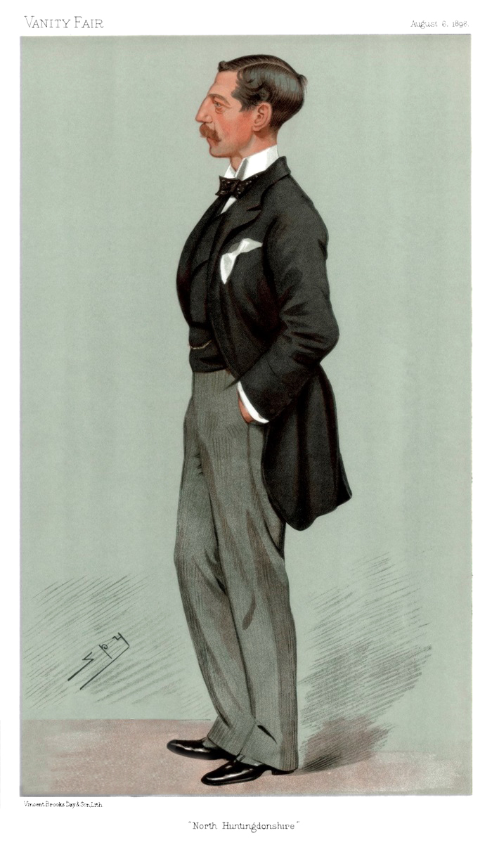 Caricature of Ailwyn Fellowes, 1st Baron Ailwyn. Caption read "North Huntingdonshire".